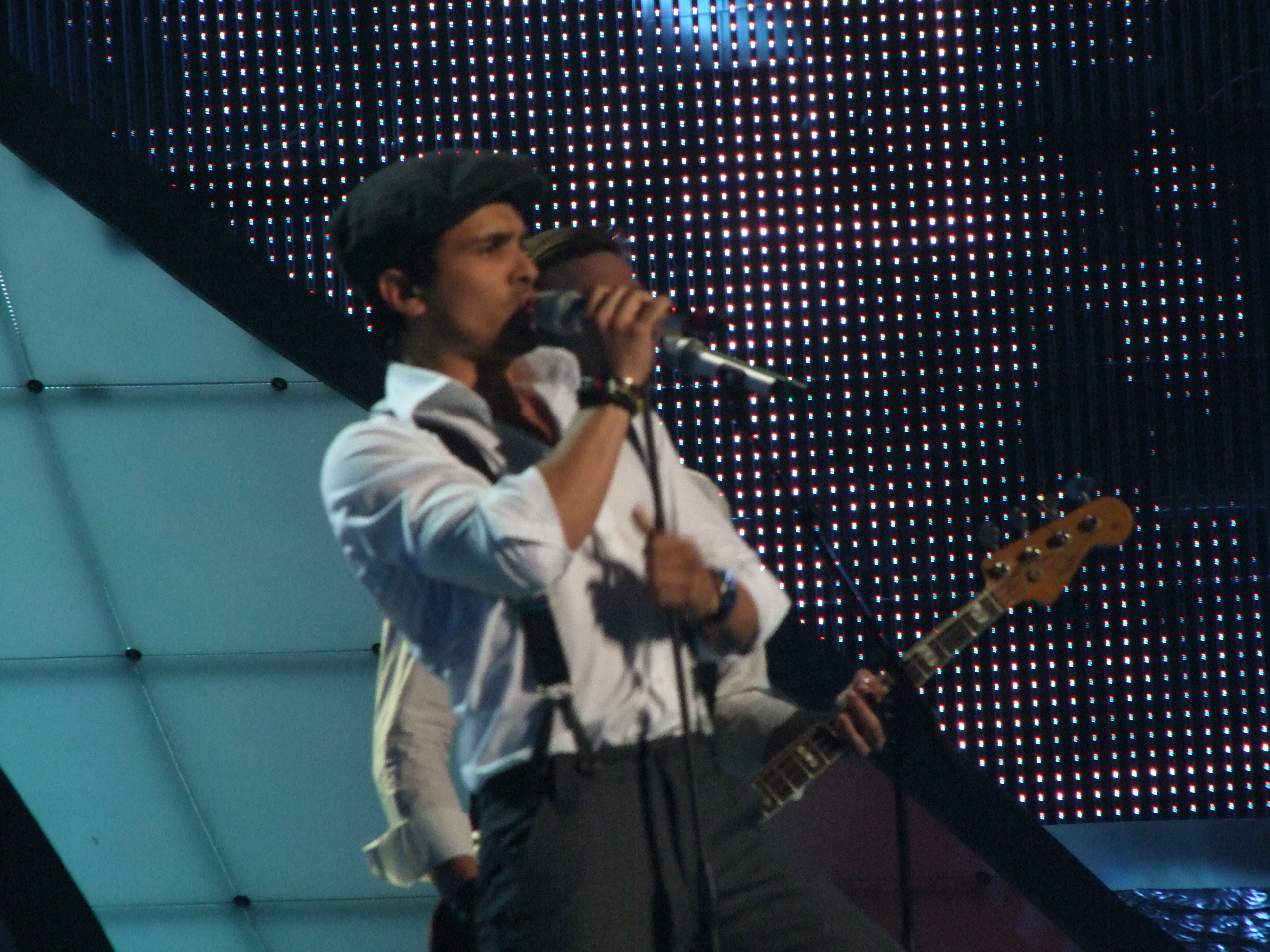 Simon Mathew in the 2nd semi-final at the Eurovision Song Contest in Belgrade, Serbia, May 22, 2008.